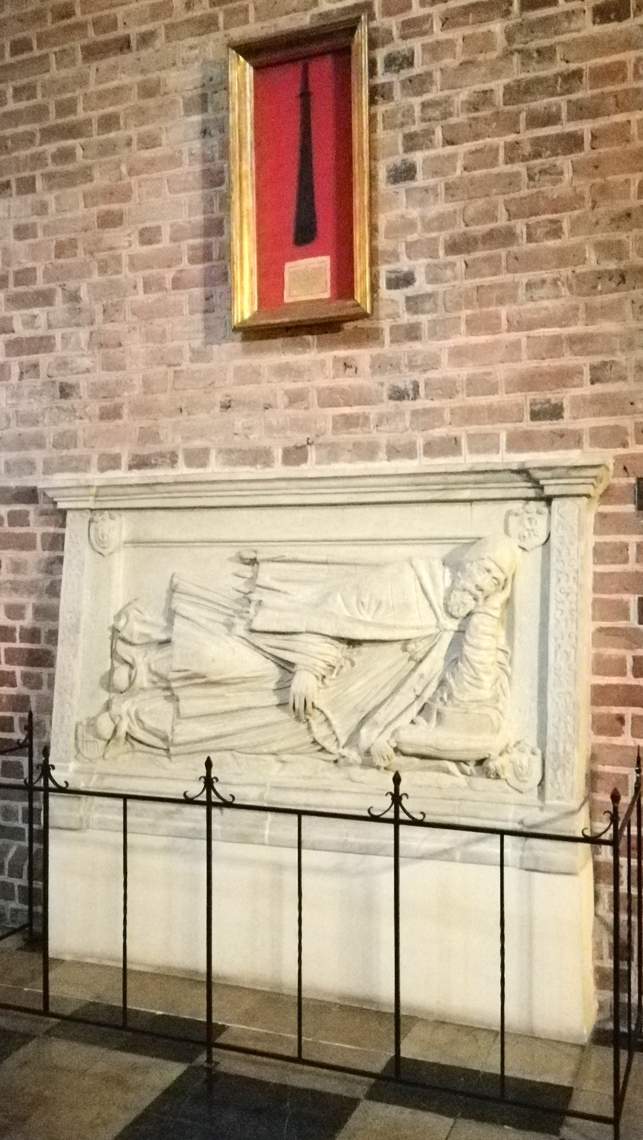 Náhrobek kanovníka a generálního vikáře Michała Sławińského, nad ním kopie meče svatého Petra